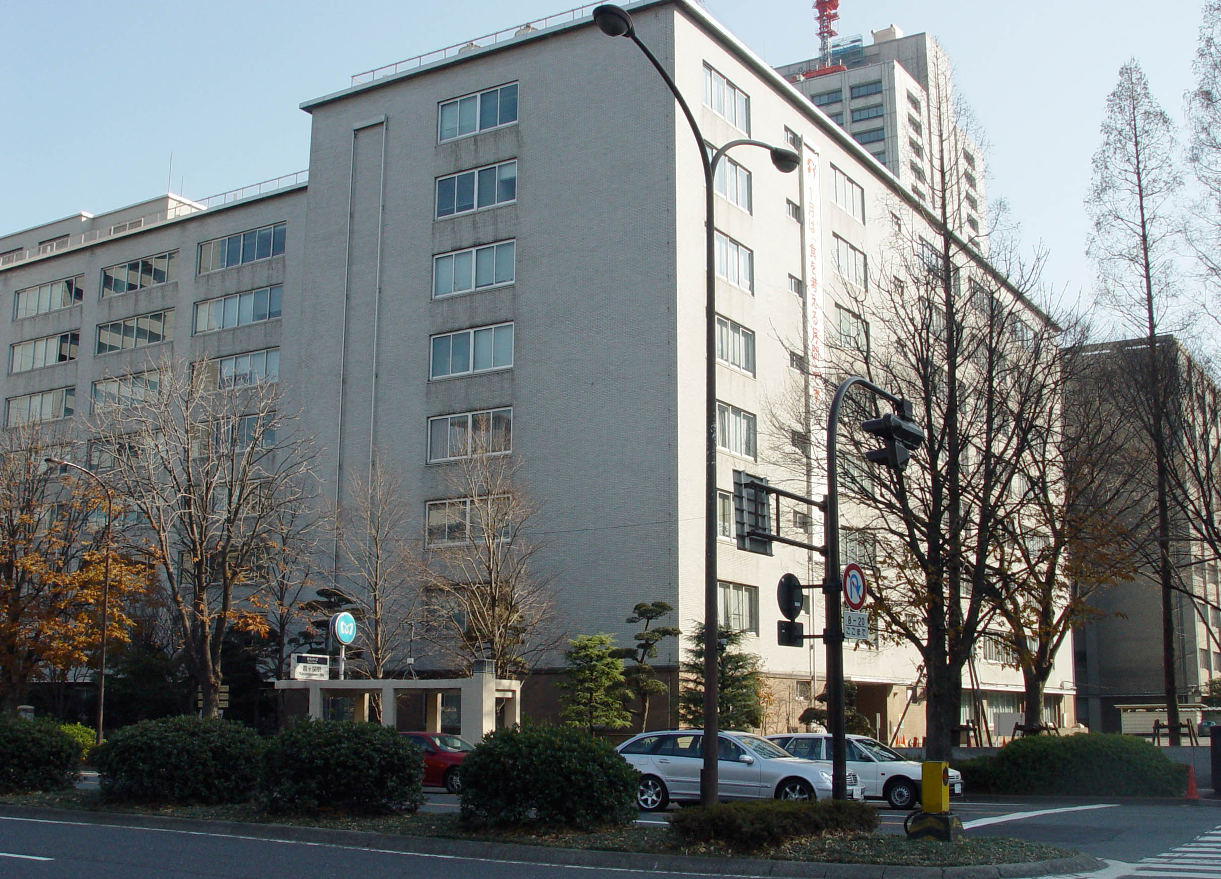 Public office building of Japan: The Ministry of Agriculture, Forestry and Fisheries 庁舎： 農林水産省